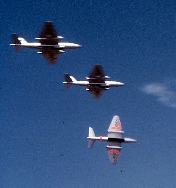 Canberra formation with T.4 no. 458 breaking during SAAF 50 at AFB Ysterplaat